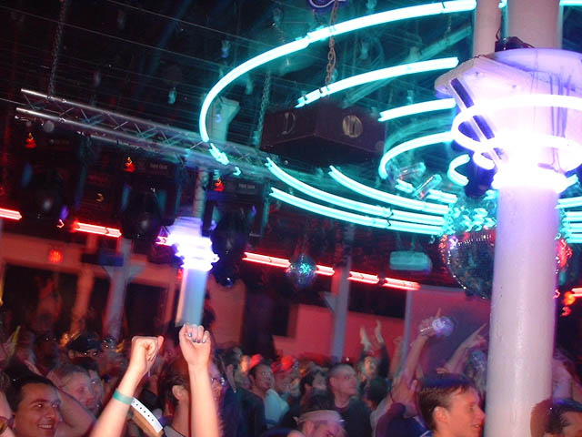 Dancing under Twilo's disco ball, the largest in NYC at the time, along with their unique lighting system. The lighting guy was awesome.